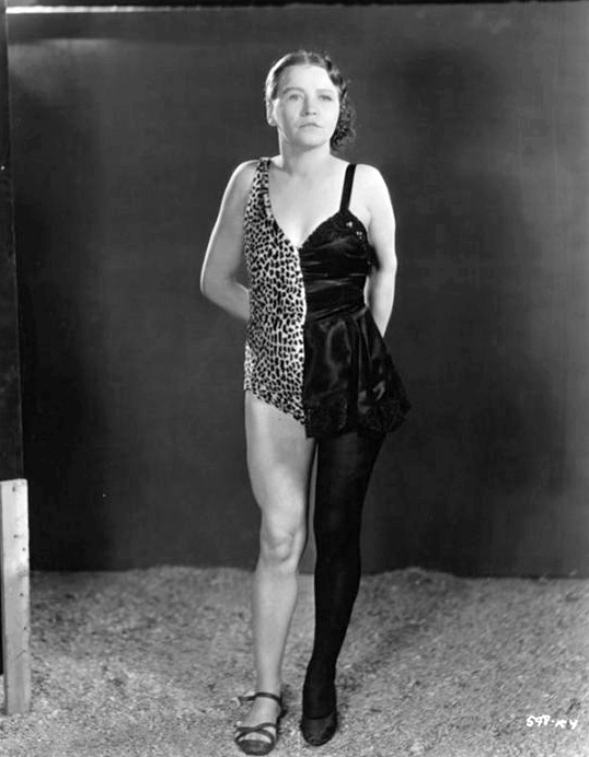 Josephine Joseph at scene of film Freaks, 1932